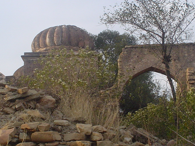 This is a main entrance gate to the Temple School (a kind of a spiritual institute/ university of Yogees), where formal apprenticeship system was exercised and awarded with qualifying titles.